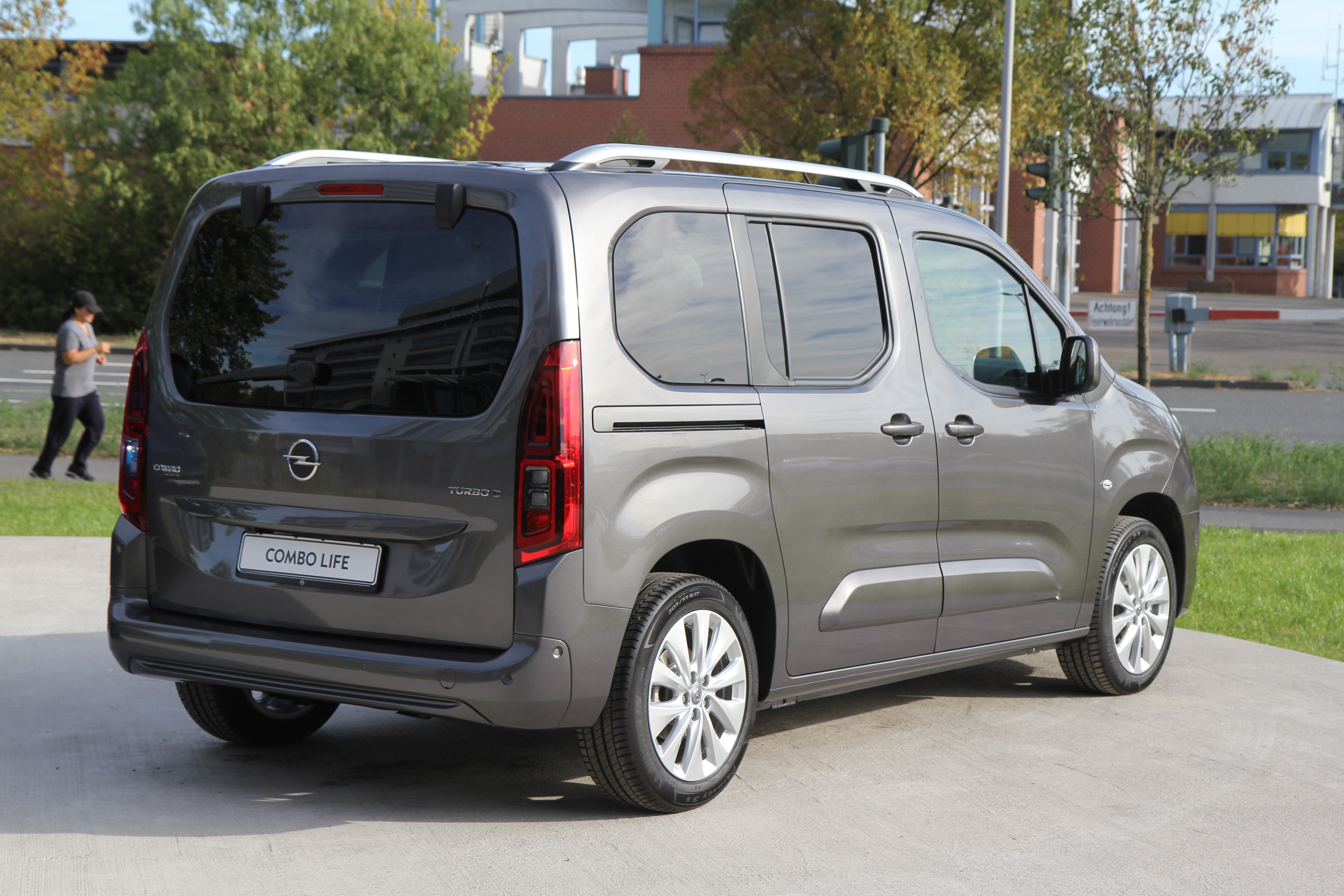 Opel Combo life 2018 exposed in front of Opel administration building in Rüsselsheim, Germany, rear half right